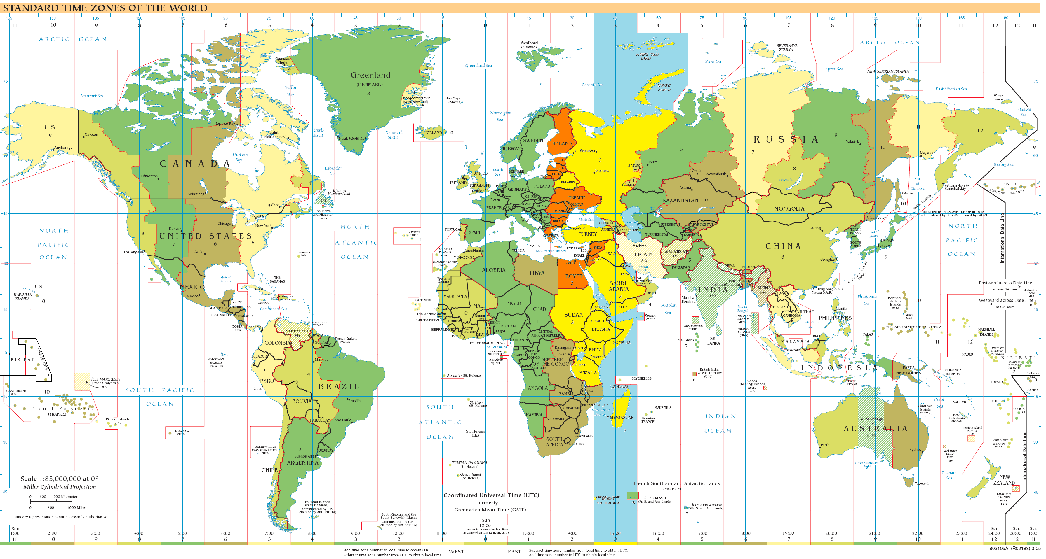 Copy of Timezones2008.png highlighting UTC+3 Dark Blue: UTC+3 Northern Hemisphere Winter / Southern Summer Orange: UTC+3 Northern Hemisphere Summer / Southern Winter Yellow: UTC+3 All year round Light Blue: UTC+3 Sea Areas